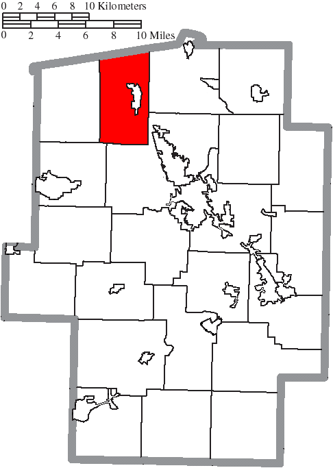 Map of the municipal and township boundaries of Tuscarawas County, Ohio, United States, as of the 2000 census, with the location of Franklin Township highlighted. Township borders are shown only in unincorporated areas in order to differentiate incorporated and unincorporated areas more clearly.